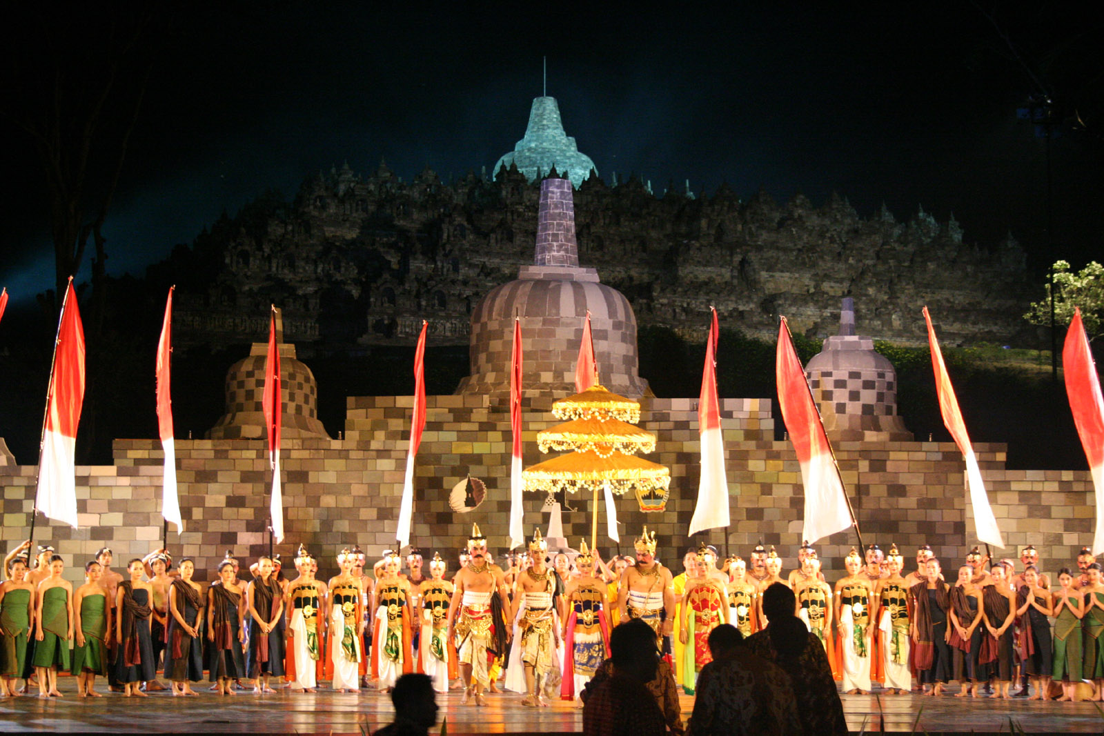 Ballet Performance in front of the Borobudur Temple at the Trail of Civilizations Symposium on 28 August 2006. The Ballet Ensemble and Borobudur, towering in the background.